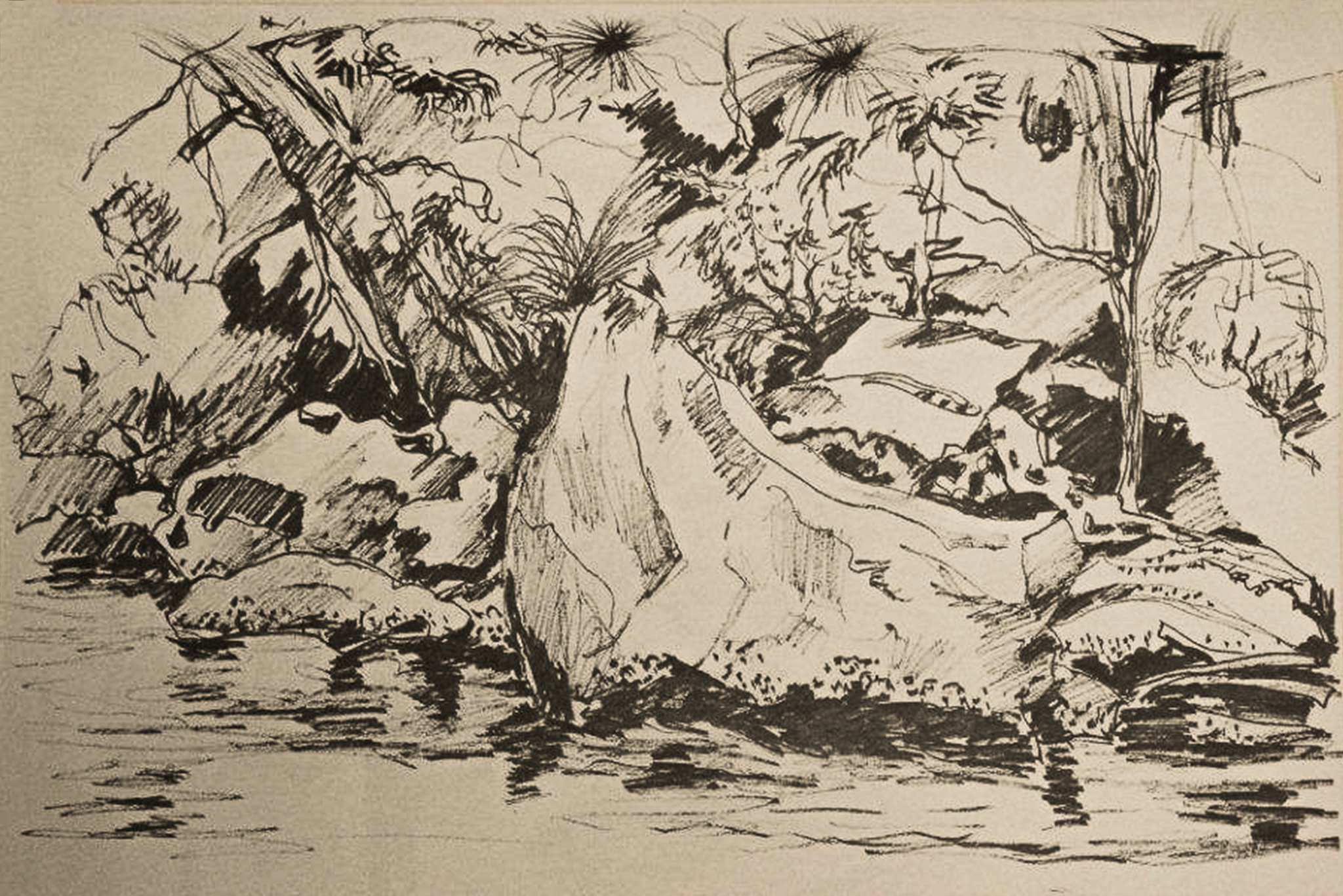 Pen and ink drawing Hawkesbury River 1980s by Ian Sprague; photographed in a private collection at Enfield Victoria